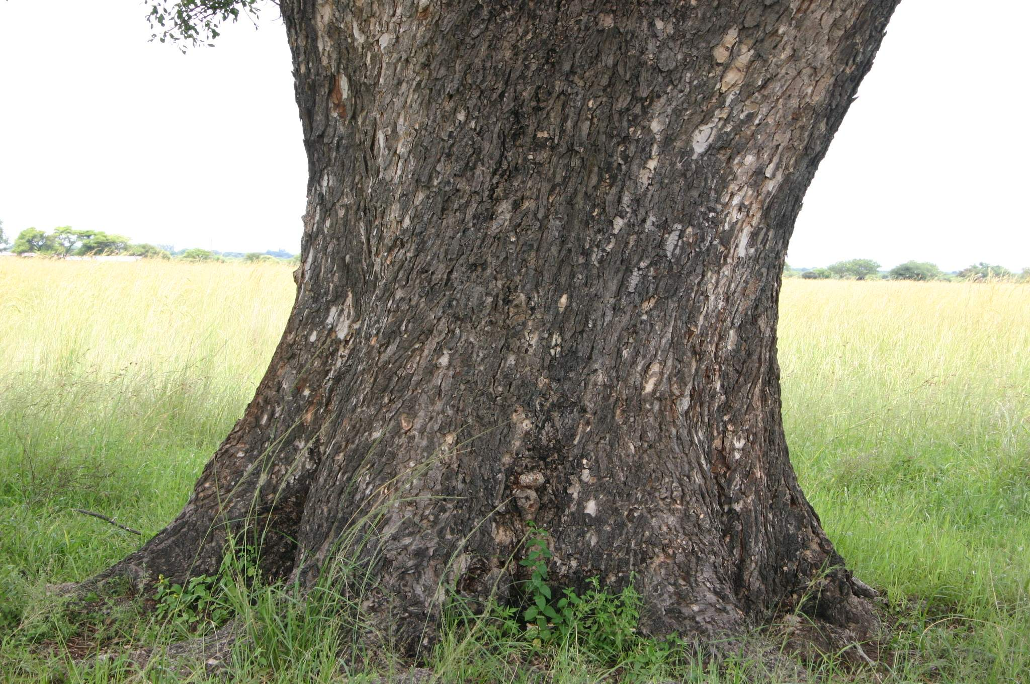 Trunk of Marula next road between Nylstroom and Potgietersrust, Transvaal, South Africa